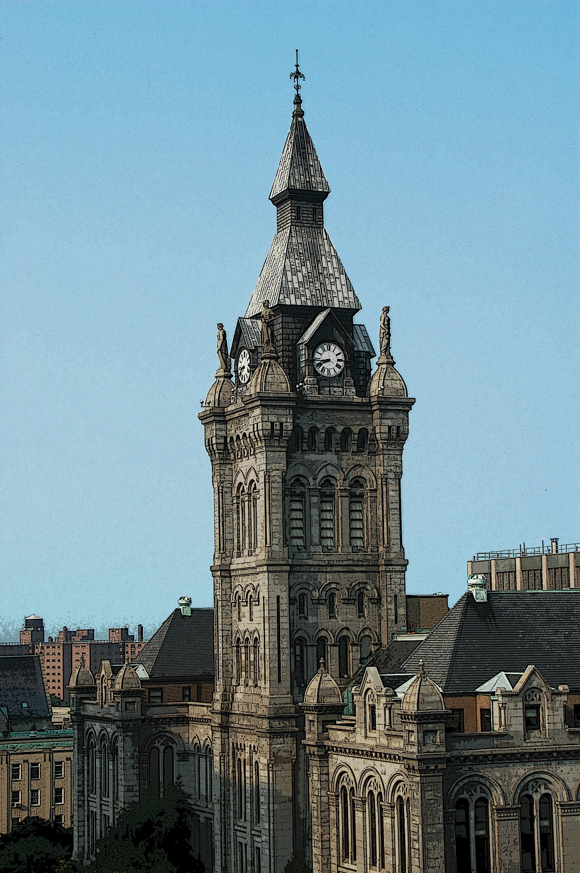 Erie County Hall. Buffalo NYErie County Courthouse